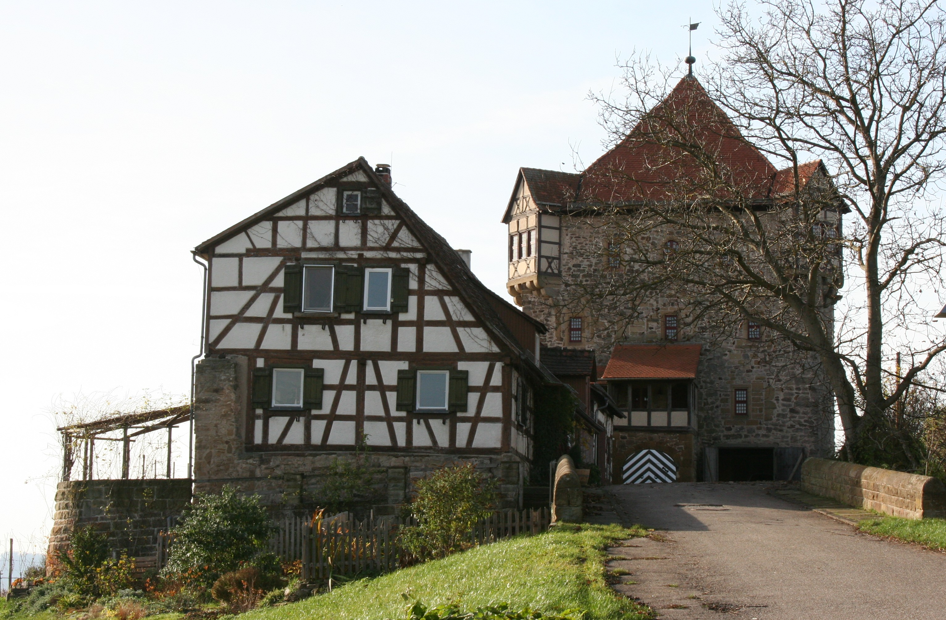 Wildeck castle in Abstatt